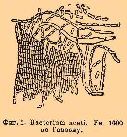 Bacterium aceti = Acetobacter aceti